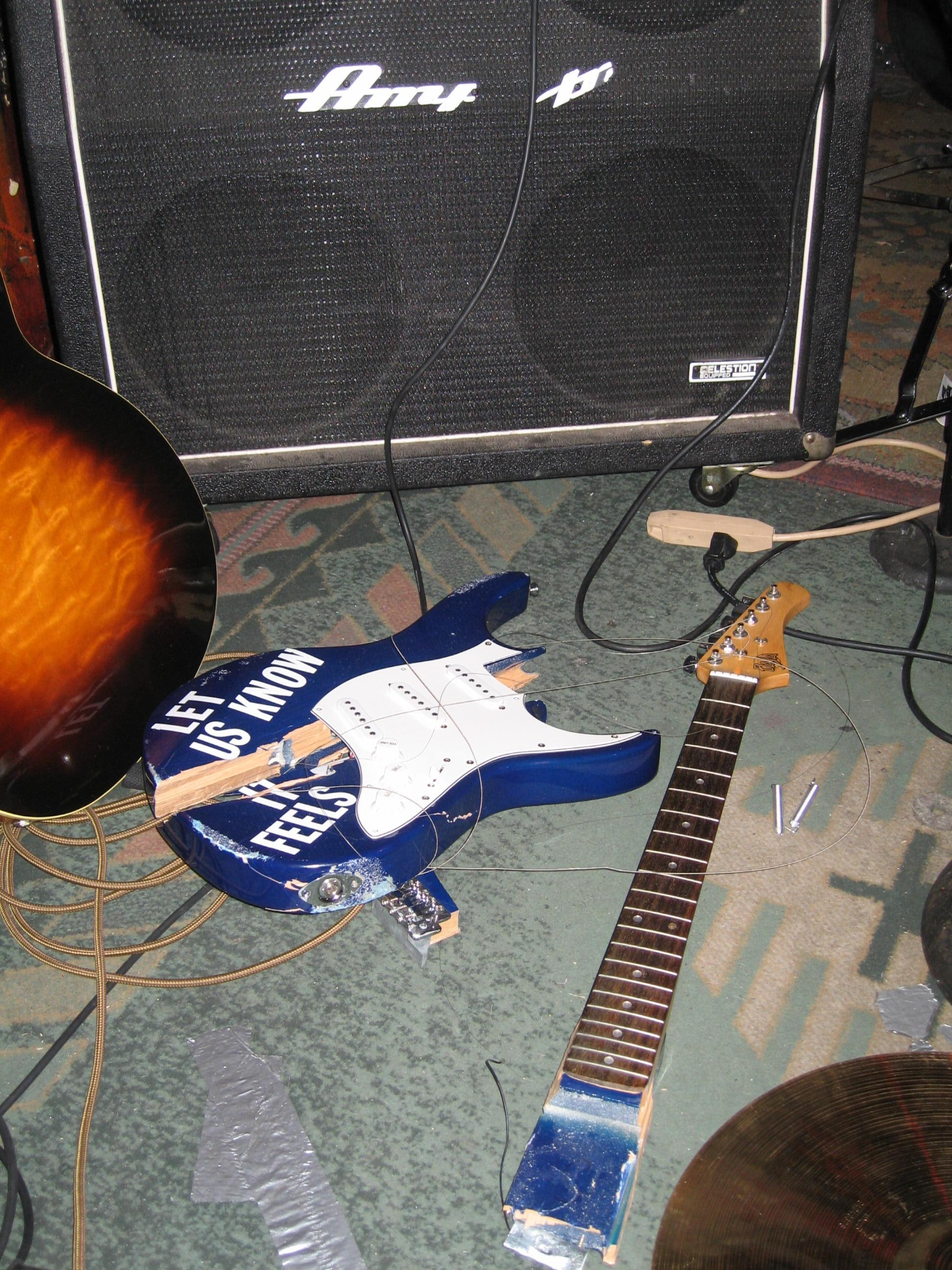 Shattered remants of broken guitar with slogan "Let us know how it feels" spelled out in white vinyl lettering